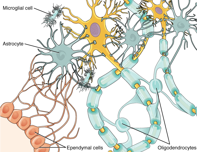 Version 8.25 from the Textbook OpenStax Anatomy and Physiology Published May 18, 2016